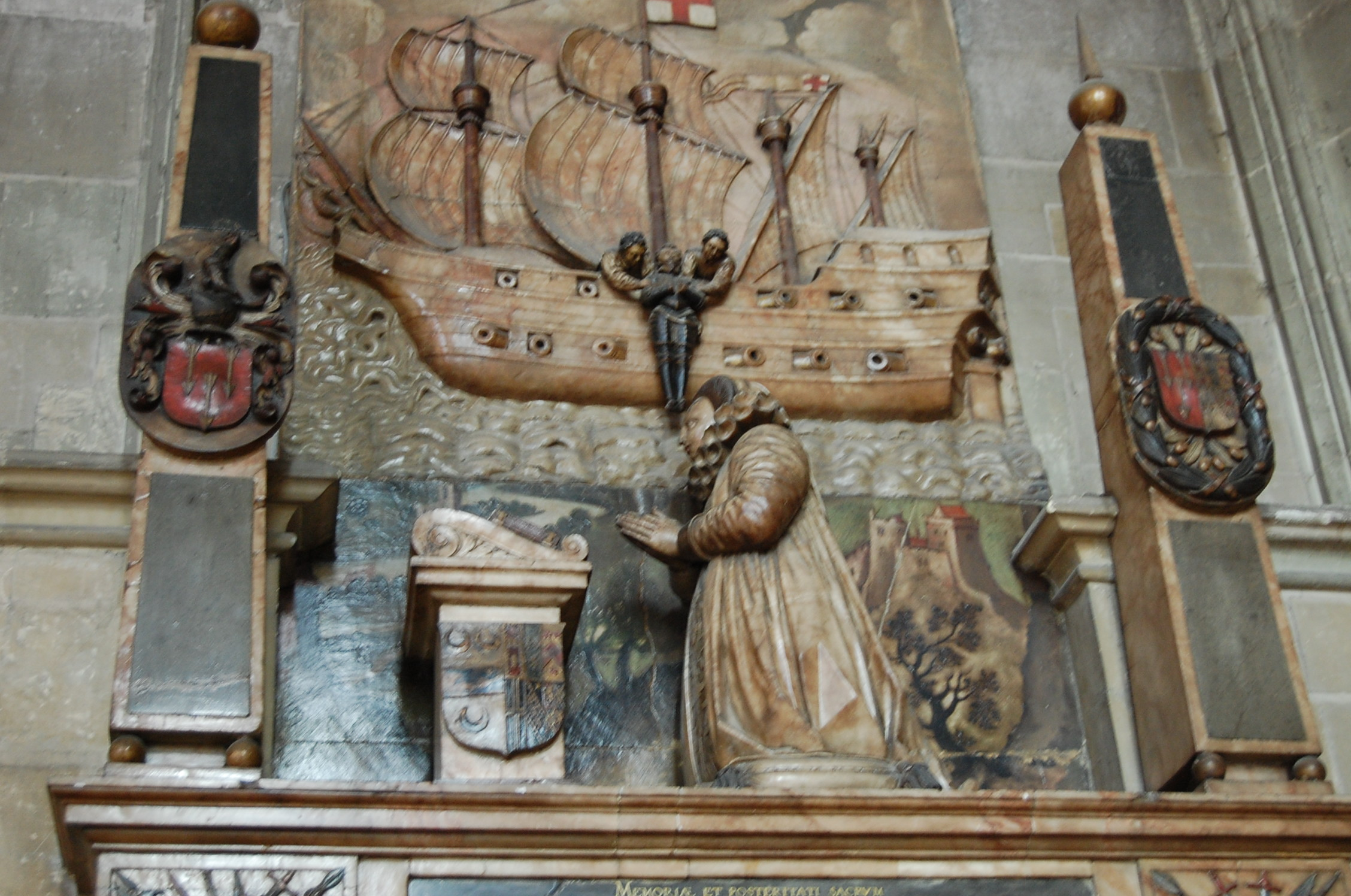 Memorial to Sir James Hales and son